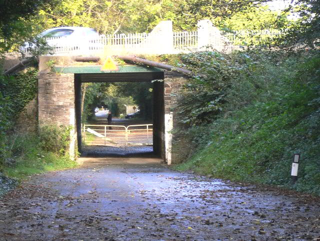 Steam Heritage Trail on the Isle of Man. The TT service road, used for temporary access when the main roads are closed for racing, goes under Peel Road (the A1) here